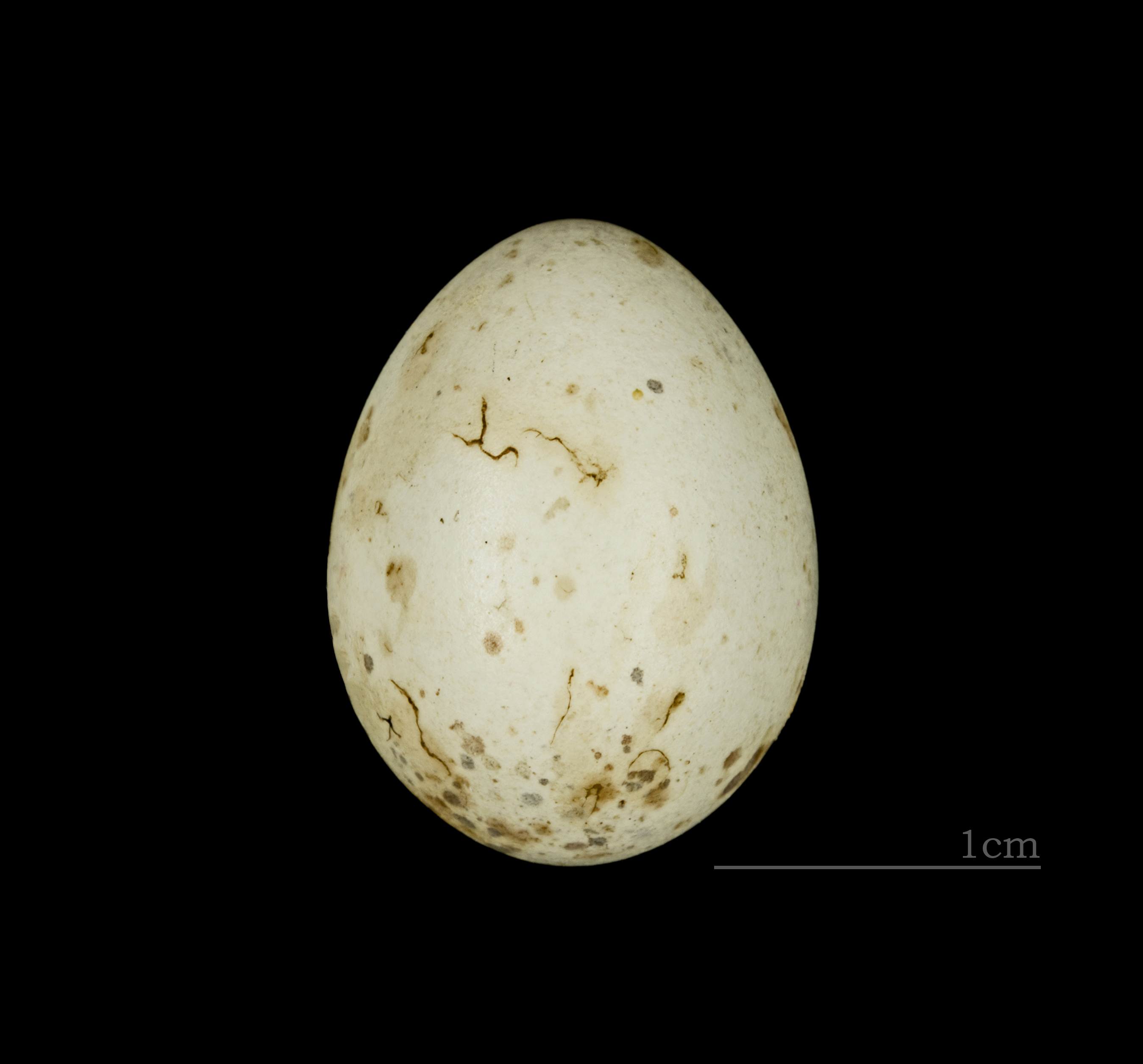 Egg of Red-billed Leiothrix. Collection of Jacques Perrin de Brichambaut